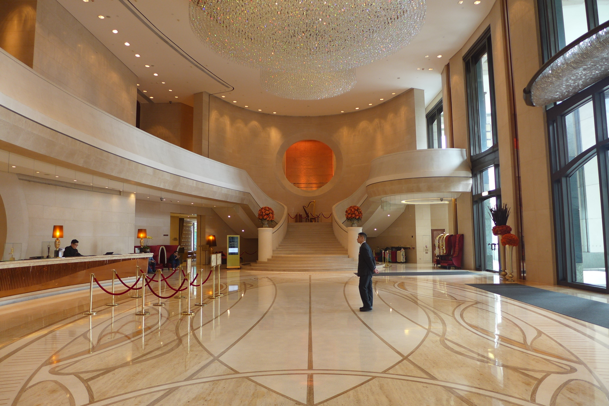 Harbour Grand Hong Kong Lobby